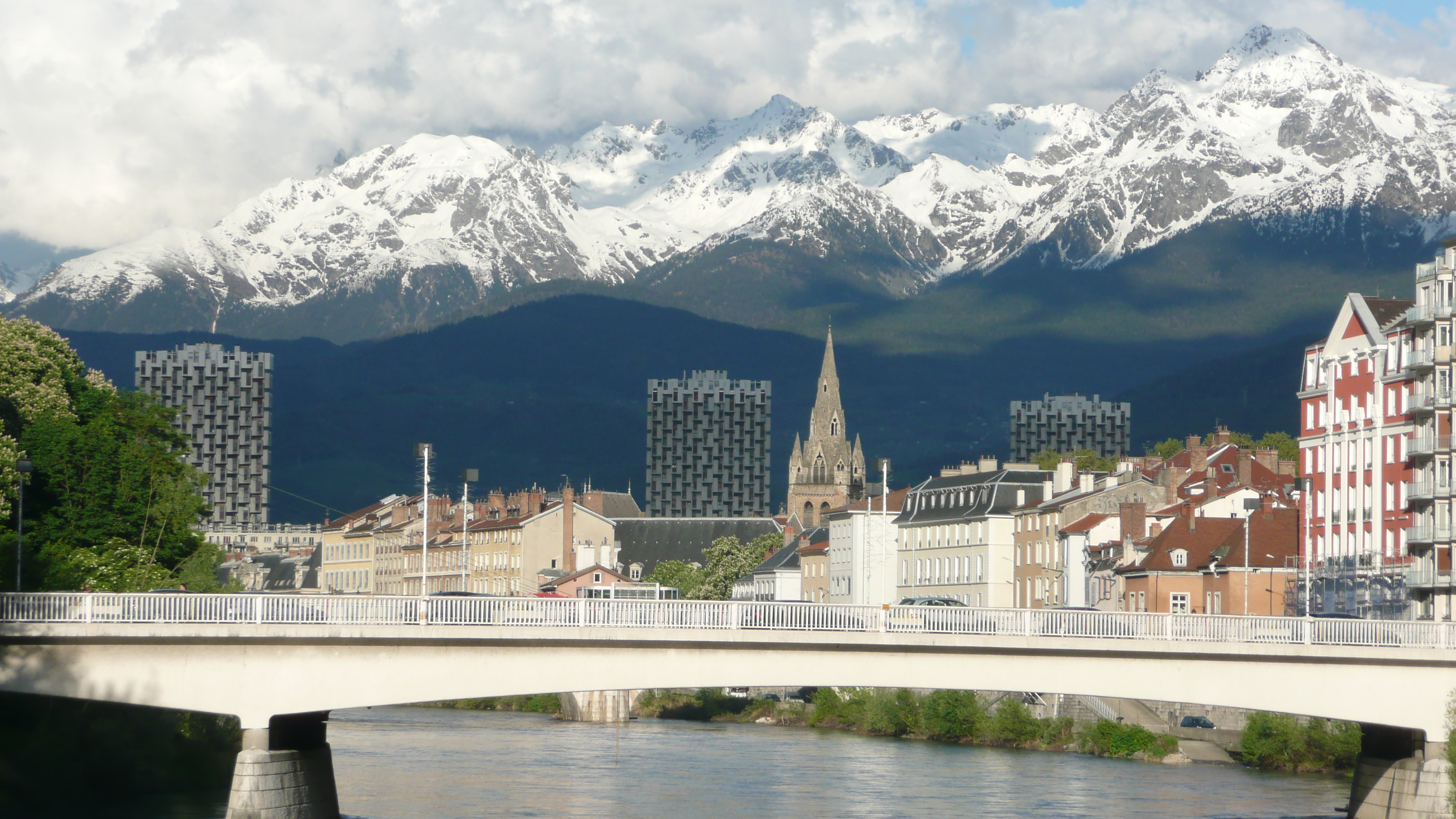 Grenoble with bridge over Isere and view of Alpes